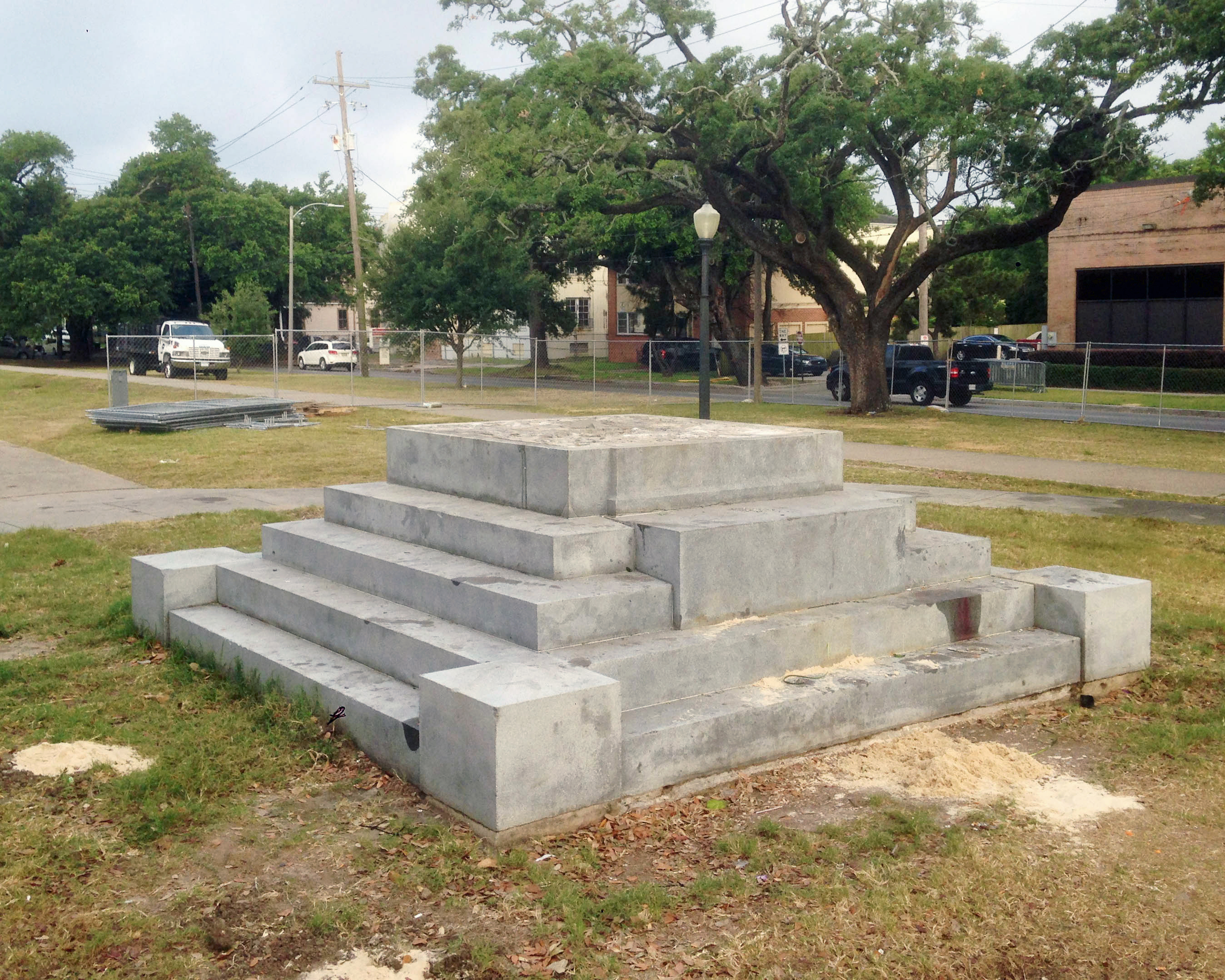 After the statue of Jefferson Davis was removed from its pedestal on 11 May 2017, the pedestal itself and its base was also removed. As of 12 May 2017, only this foundation remained.